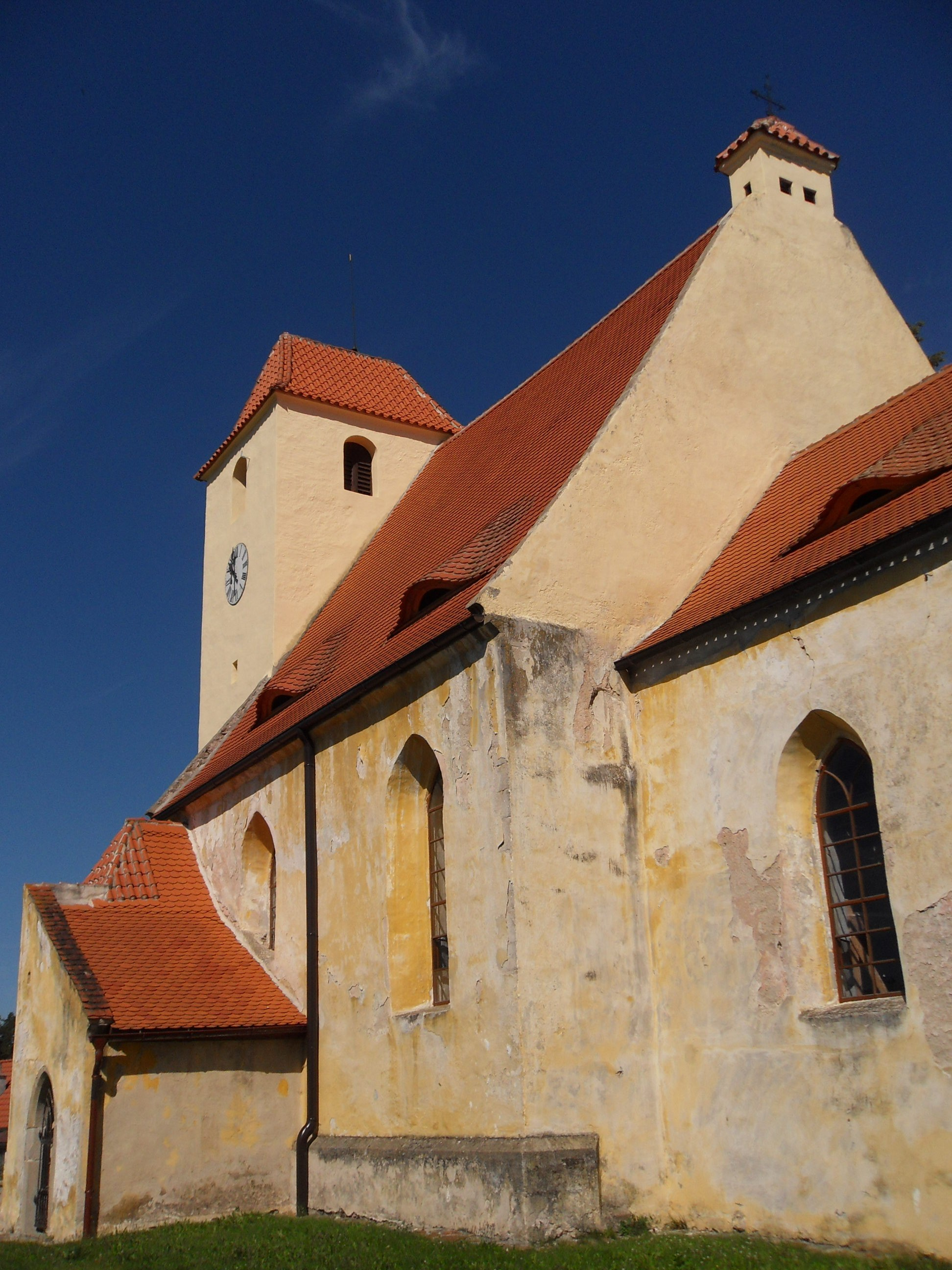 Church of the Beheading of Saint John the Baptist in Žumberk village, Žár, České Budějovice district, Czech Republic - OpenStreetMap(Info)